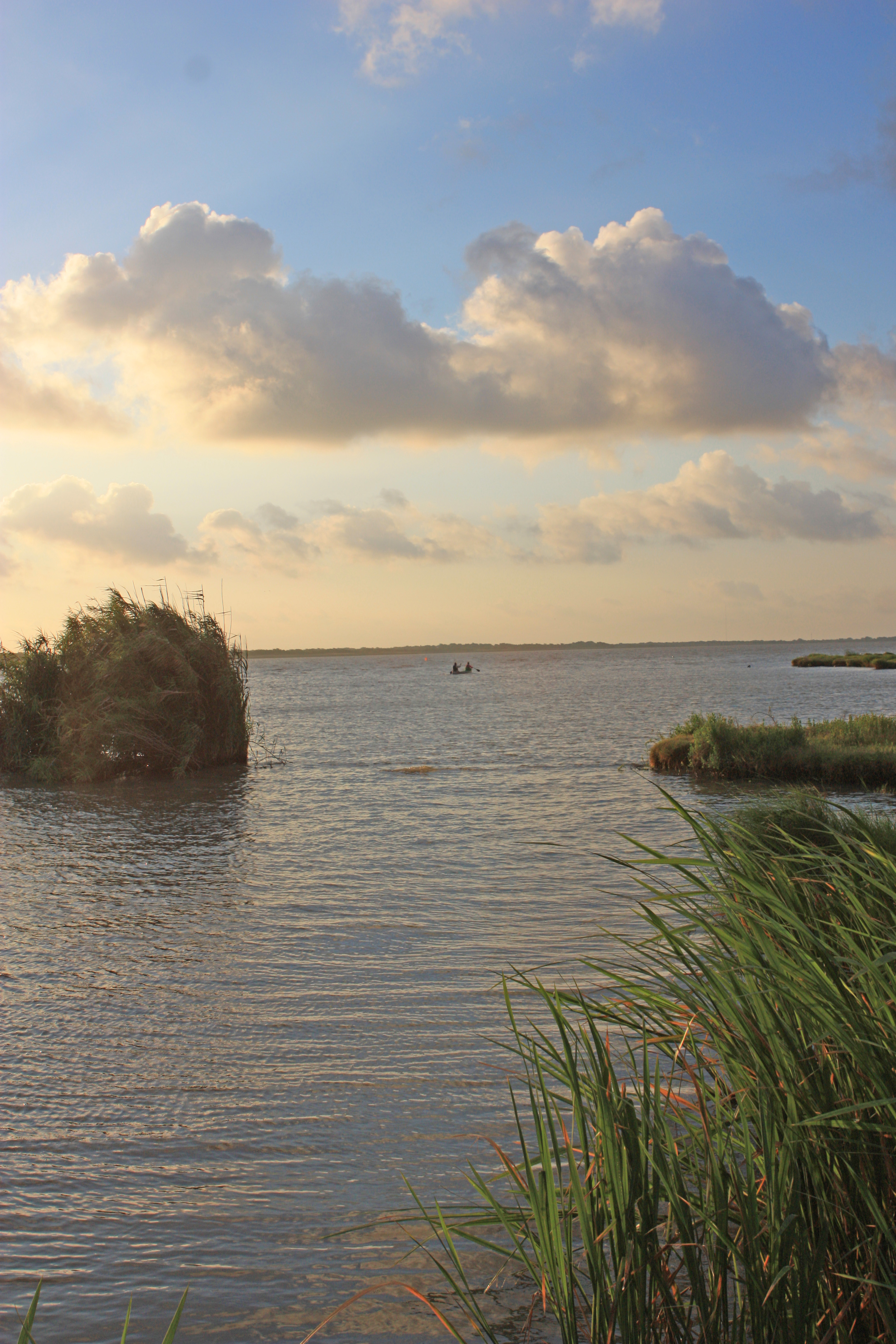 At the start of the bay